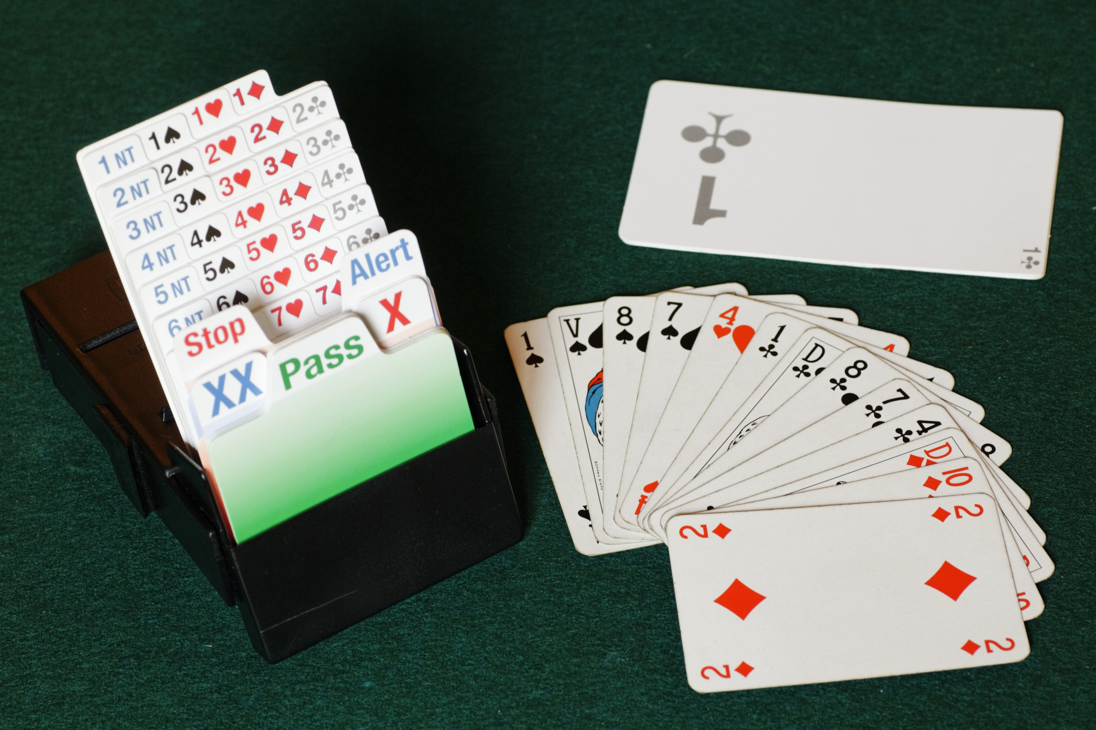 Contract bridge auction: on the left, a bidding box; on the bottom right, the player's hand (Frenck deck of cards); on the top right, the call of 1♣, according to the French 5-card major system.